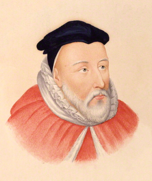 A portrait of Sir William Peryam (1534 – 9 October 1604), an English judge who, in 1593, rose to the top position of Lord Chief Baron of the Exchequer and was knighted by Elizabeth I of England.